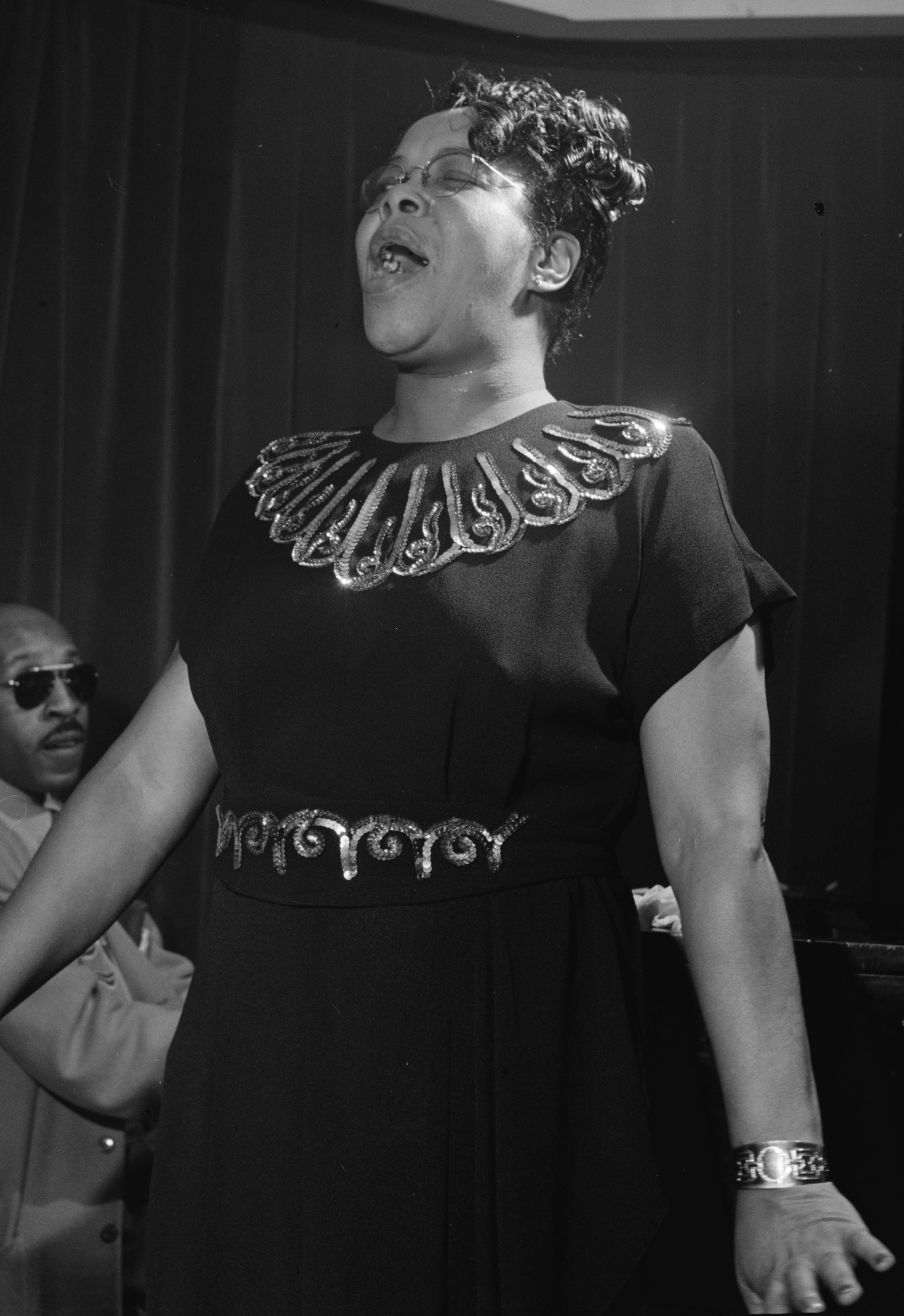 Bertha Chippie Hill. Photograph by William P. Gottlieb (between 1946 and 1948)